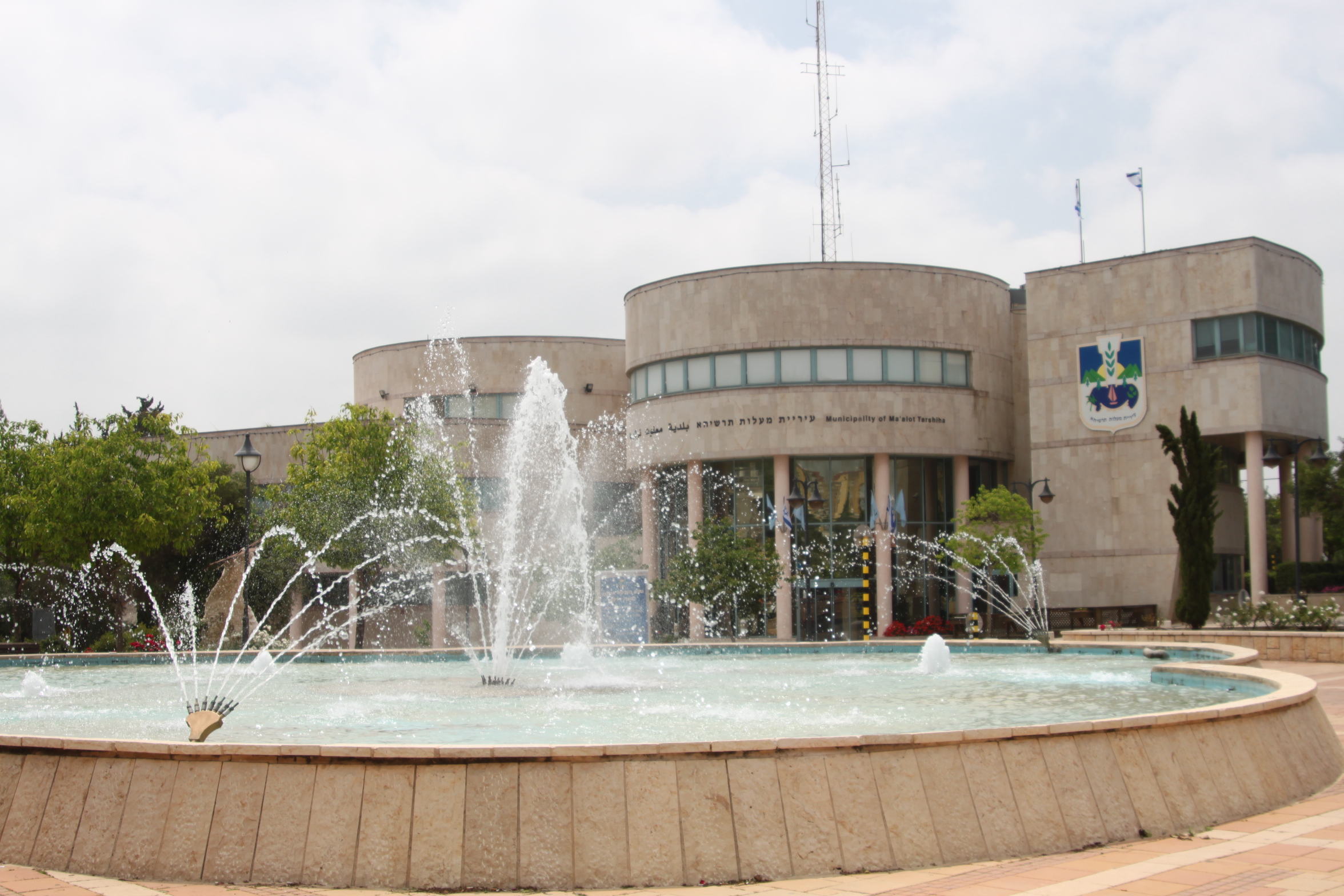 Ma'alot, Geography of Israel